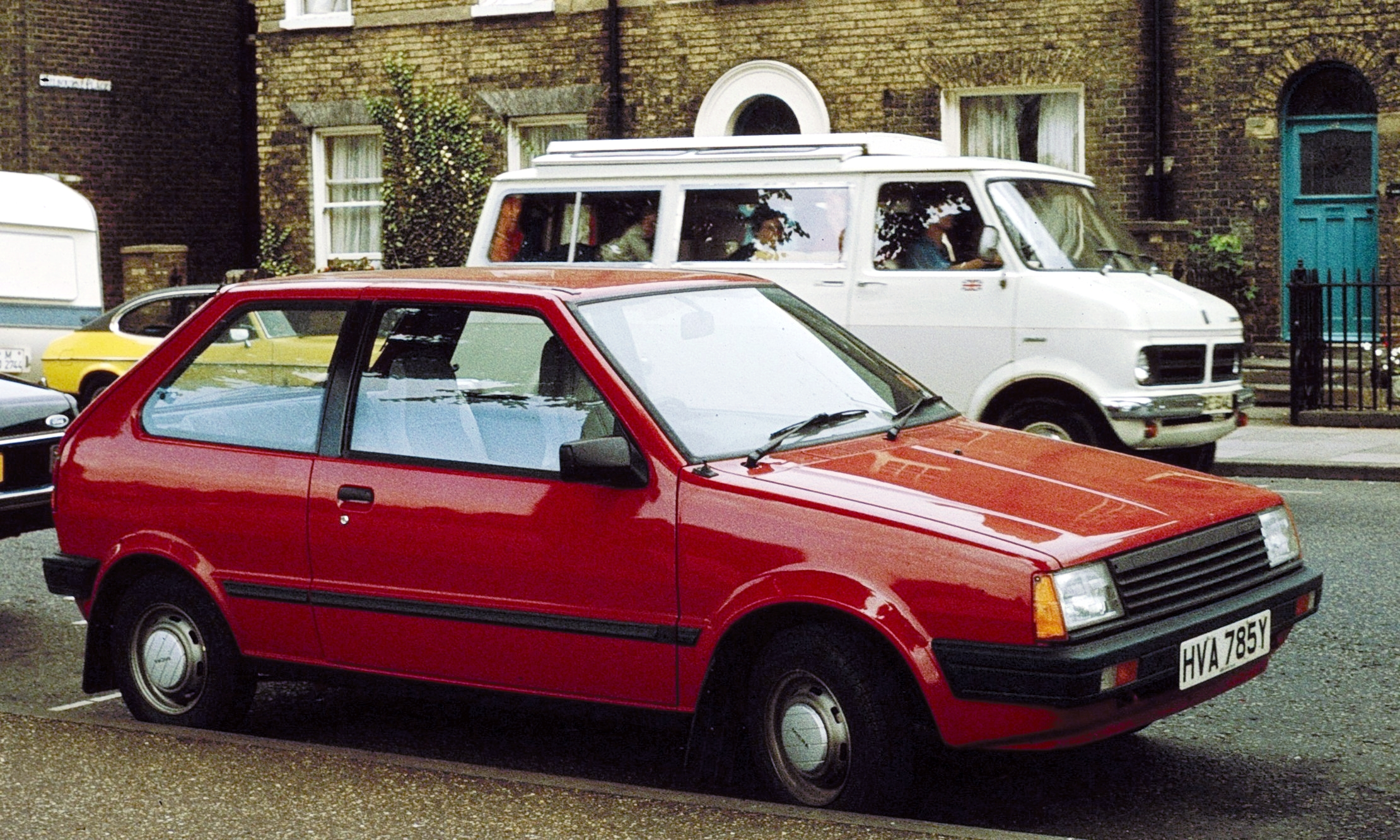 Nissan Micra in Cambridge In he background the white van is a Bedford CF. The yellow car is a Ford Capri. Parked behind the Micra is (the rear end of) a Ford Cortina Mk II